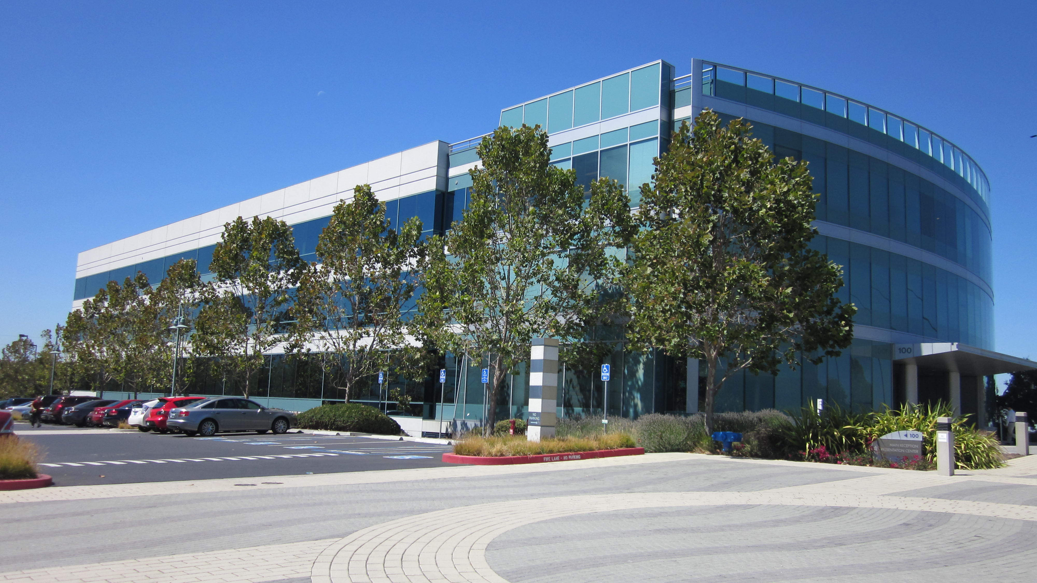 Infomatica headquarters in Redwood City, California.